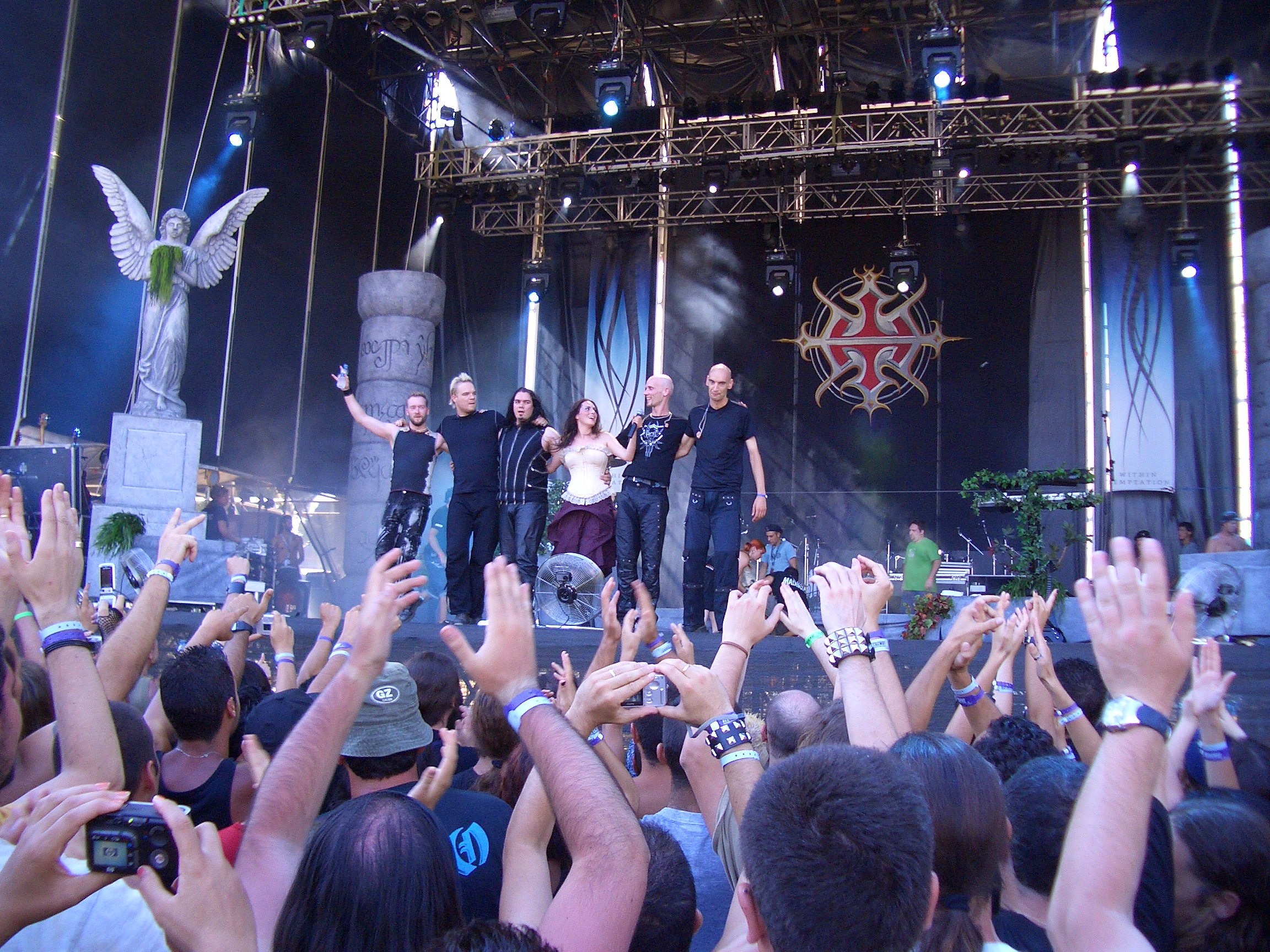 Within Temptation on Metalway 2006